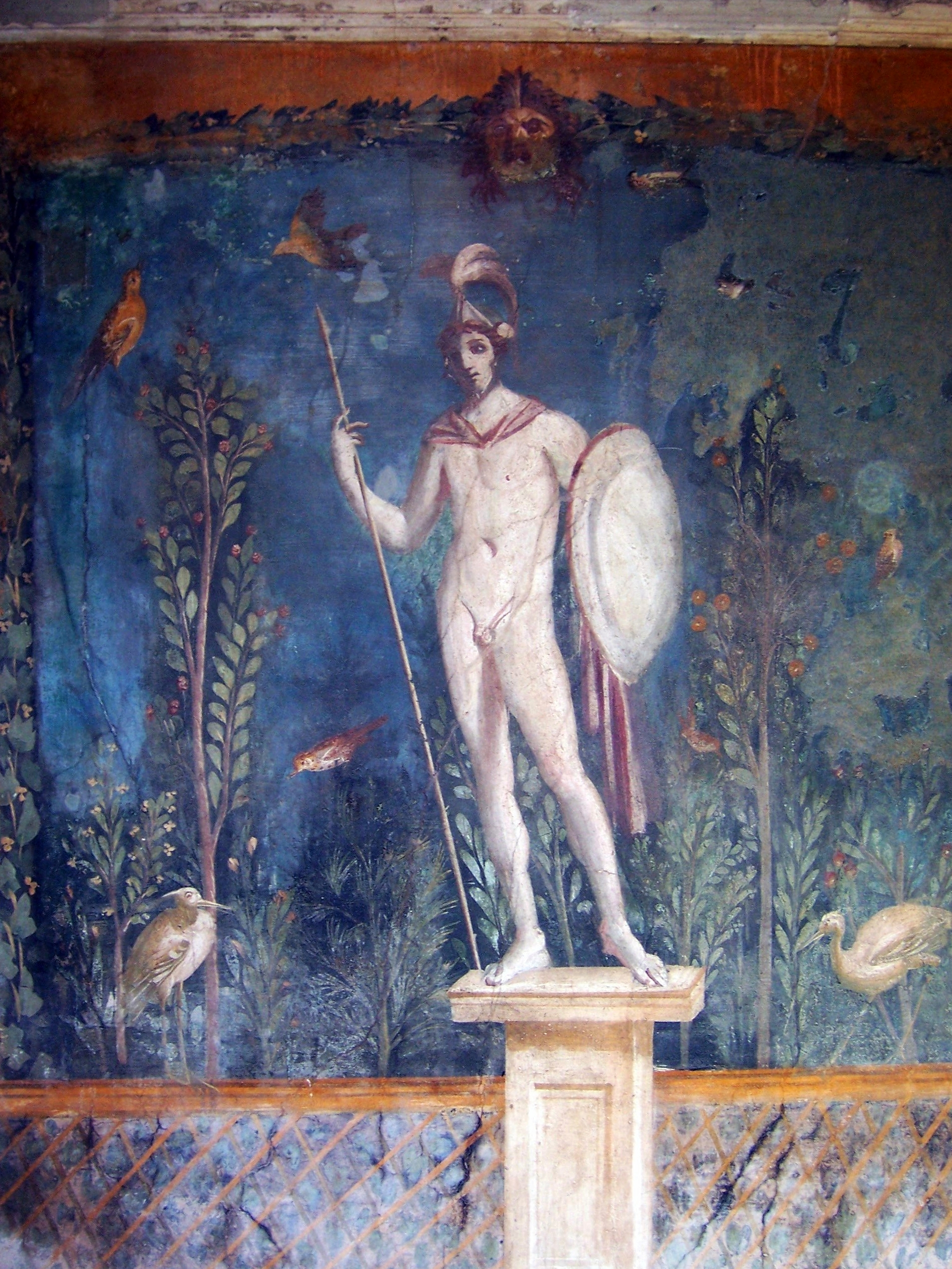 Statue of Mars (Ares) the god of war is painted standing on a garden plinth. He has spear shield and crested helm.